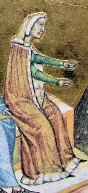 Helena of Serbien